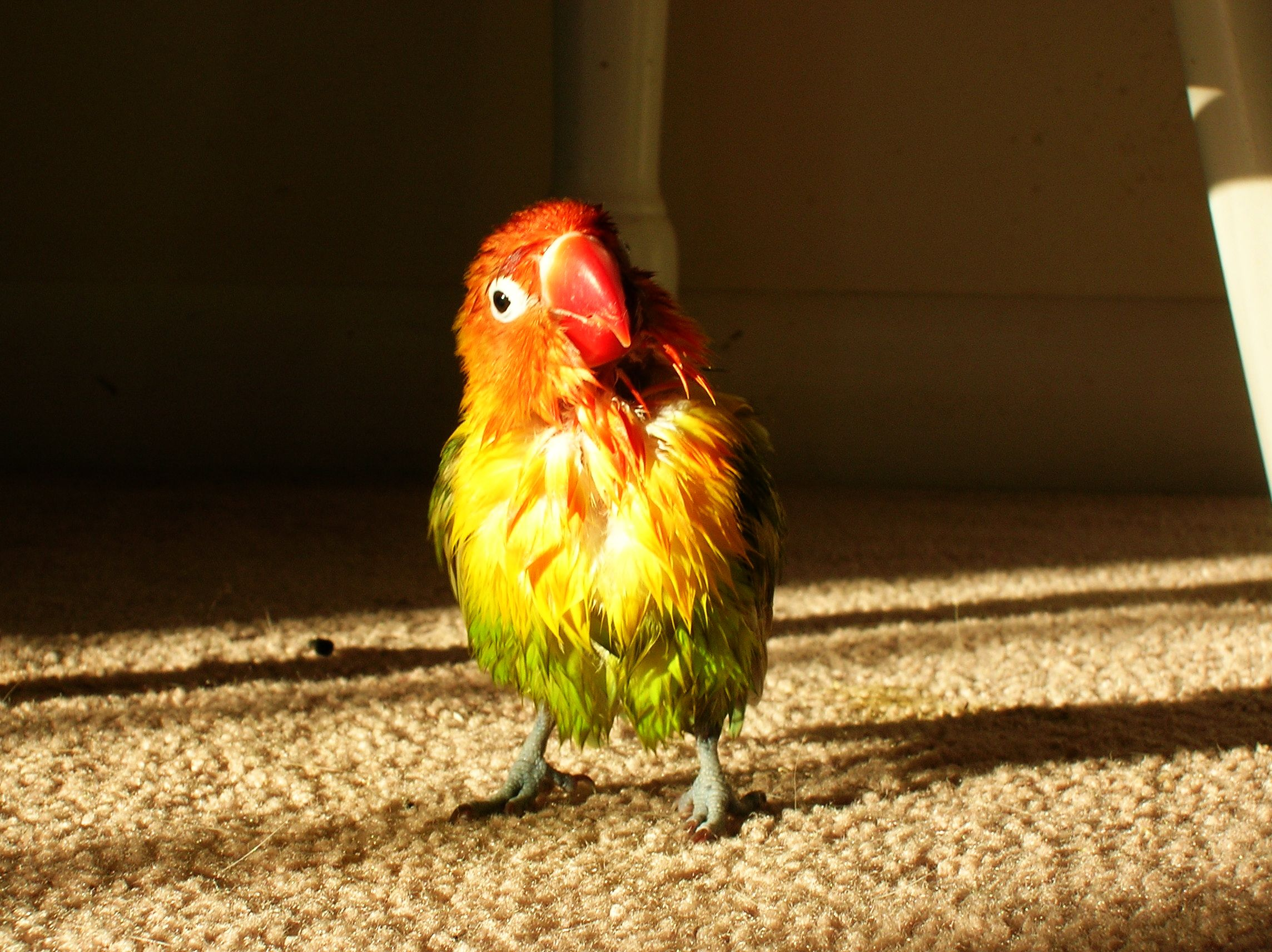 Lovebird after taking a bath, sunning himself.